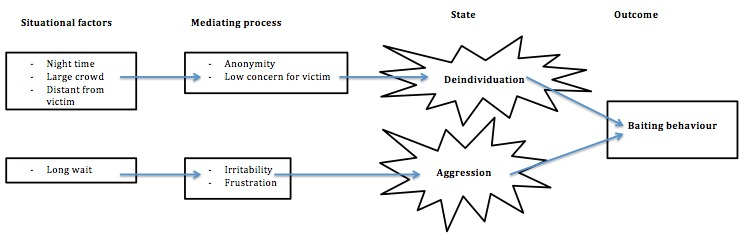 How factors influence baiting behaviour